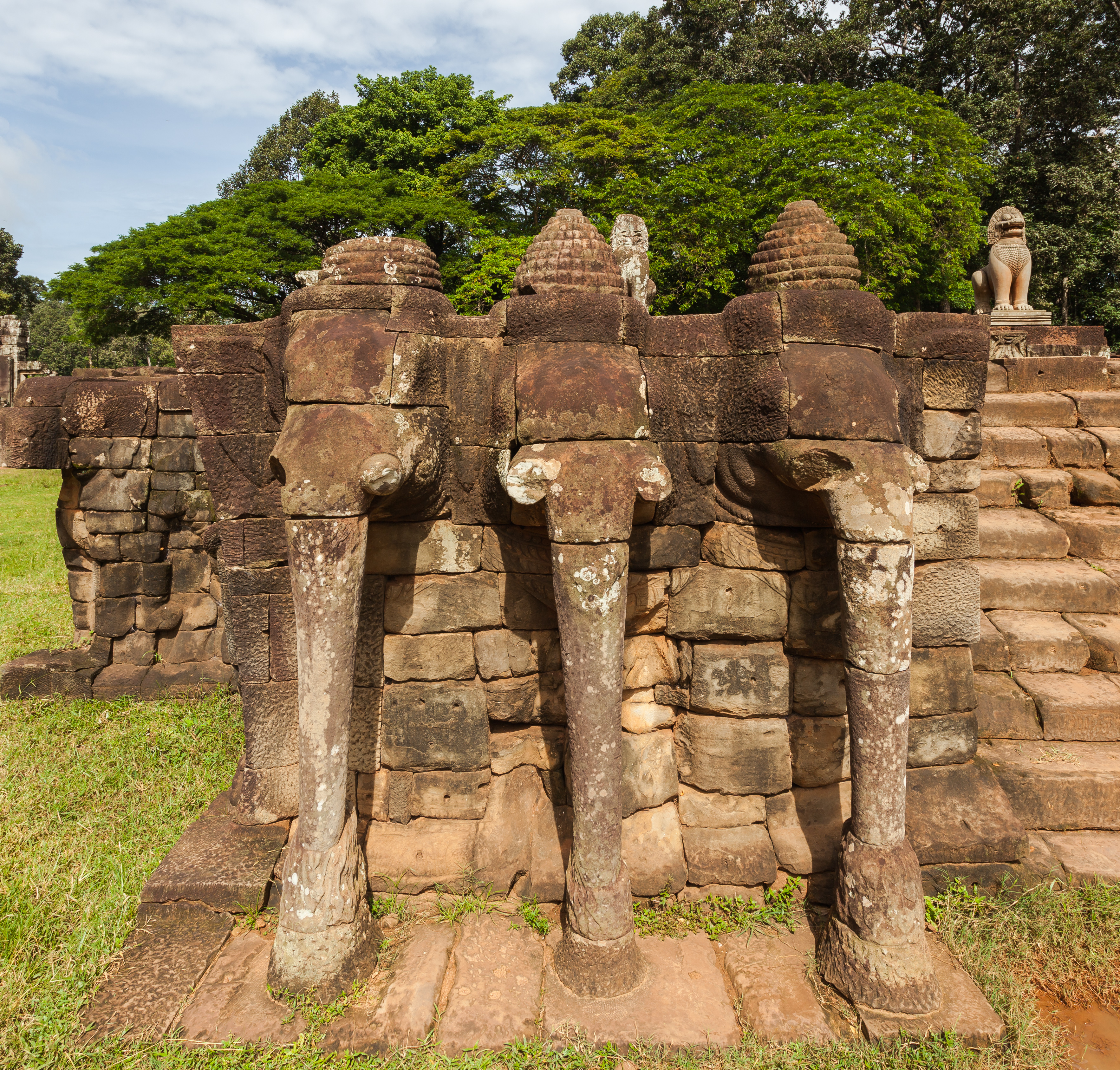 Terrace of the Elephants, Angkor Thom, Cambodia